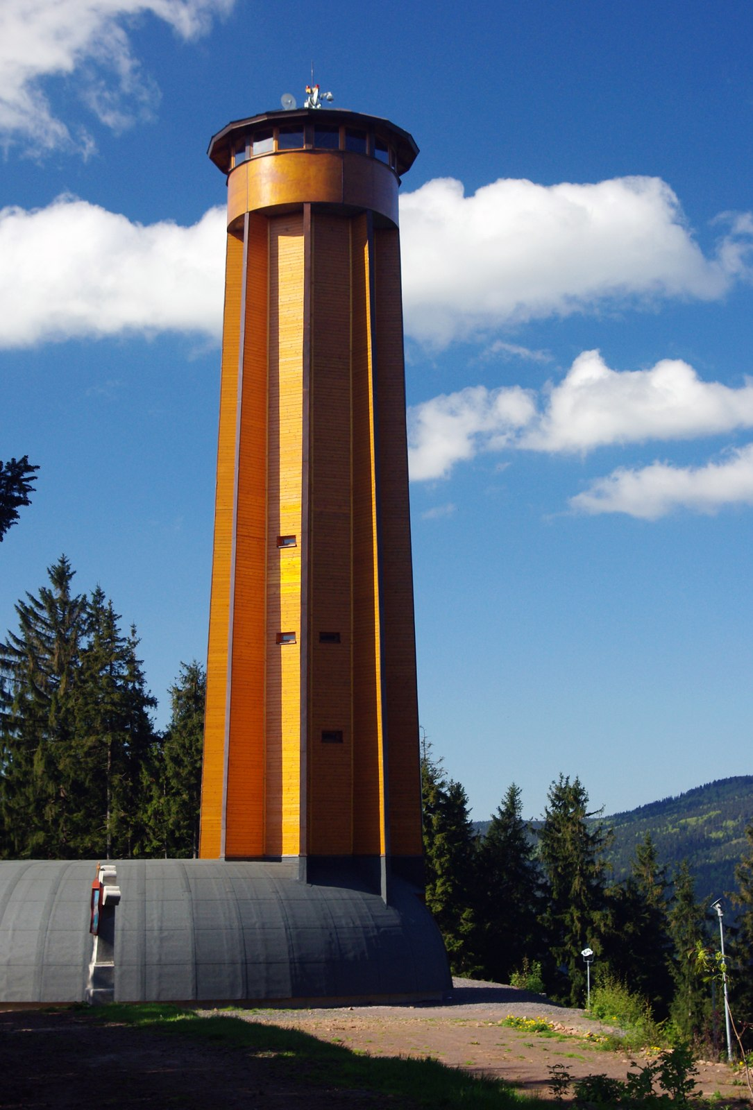 Sight seeing tower on Krizova hora near Cervena Voda in Czechia.